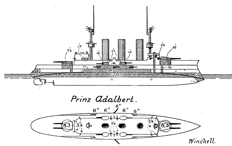 Line drawing of SMS Prinz Adalbert, an armoured cruiser of the Imperial German Navy